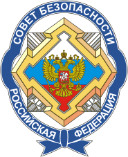 Emblem Security Council of Russia